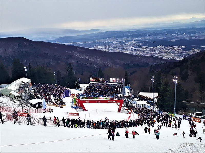 2019 Snow Queen Trophy Women's Race 1st Run, Zagreb: Sljeme, 5th January 2019